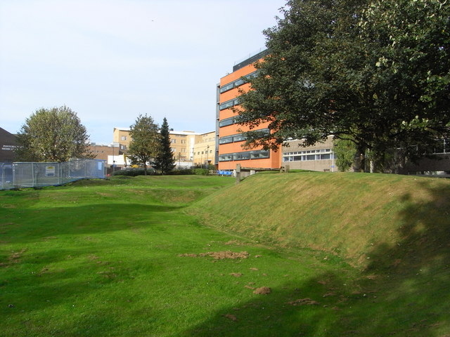 Site of Metchley Roman fort